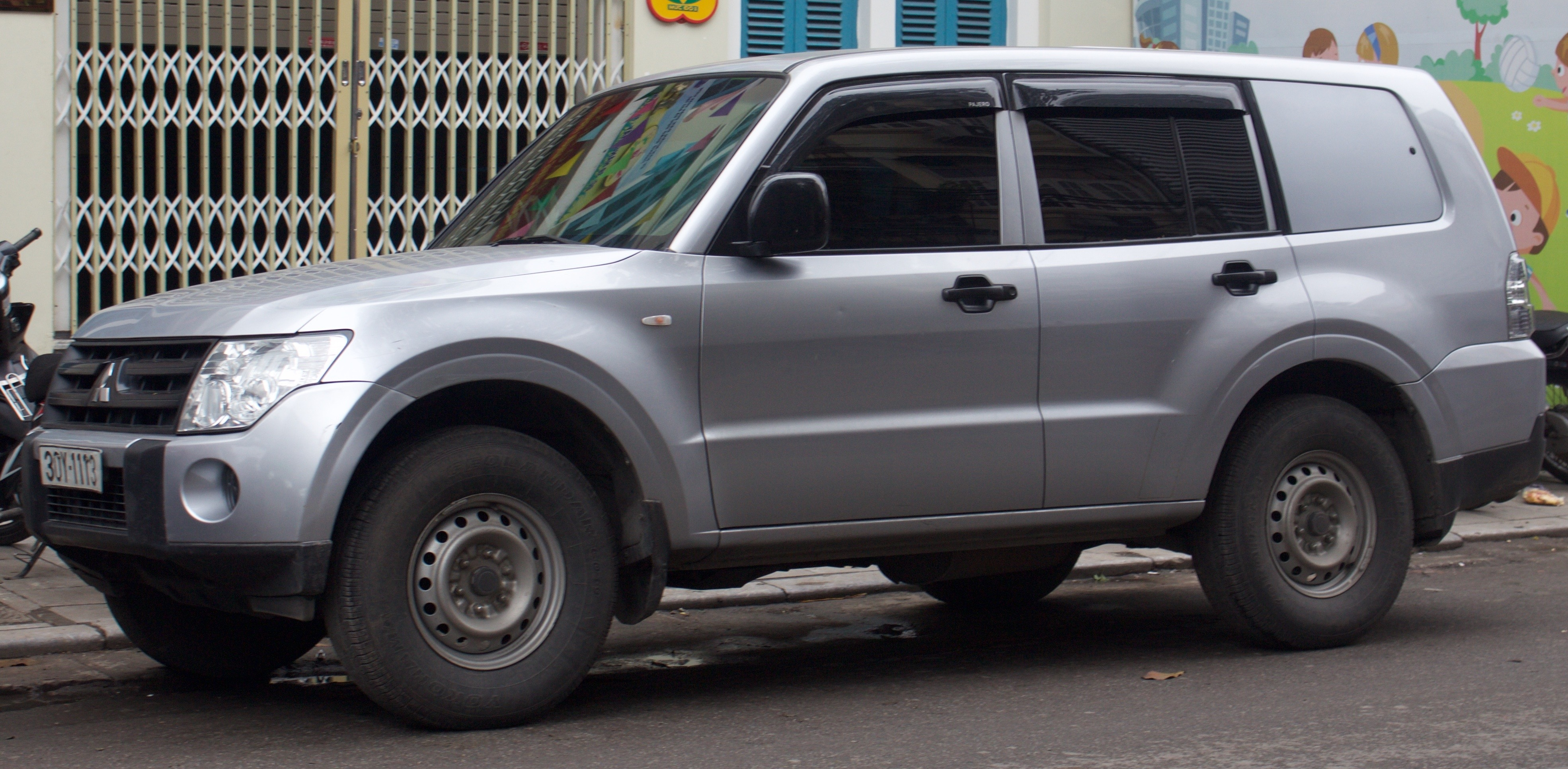 Mitsubishi Pajero Van in Hanoi, Vietnam. Cargo version, commonly as armoured cars for valuables transport to and from banks.